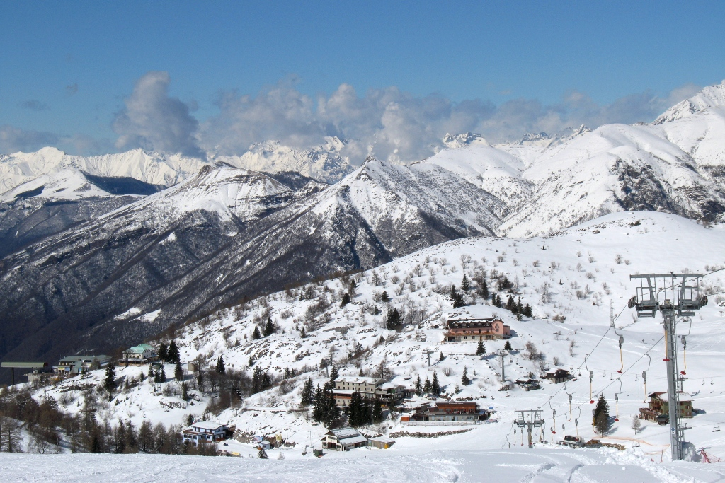 Landscape from the slope of Piani di Bobbio